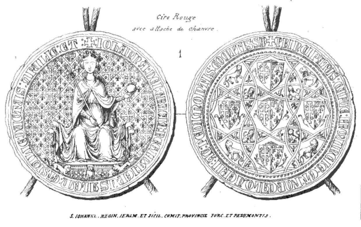 Seal of Joan I of Naples (1346-1377)